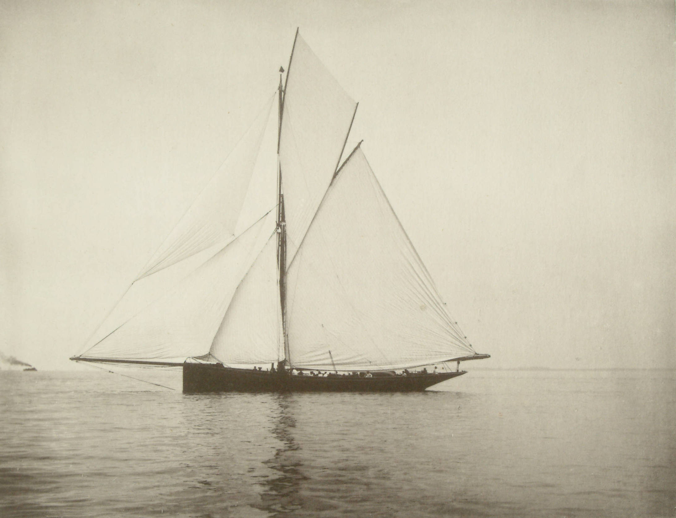 Genesta, Royal Yacht Squadron 1885 America's Cup challenger (John Beavor-Webb, 1884 - photography: Nanthaniel Livermore Stebbins)